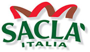 Sacla Logo